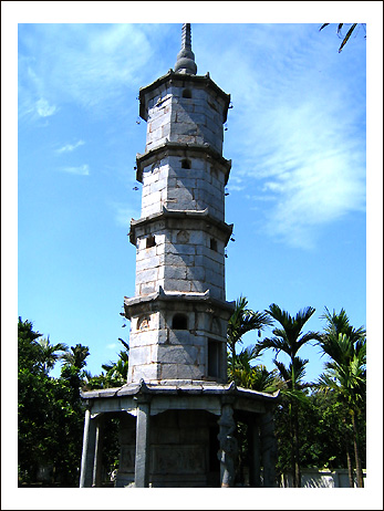 Bao Nghiem tower in But Thap pagoda, Bac Ninh, Vietnam